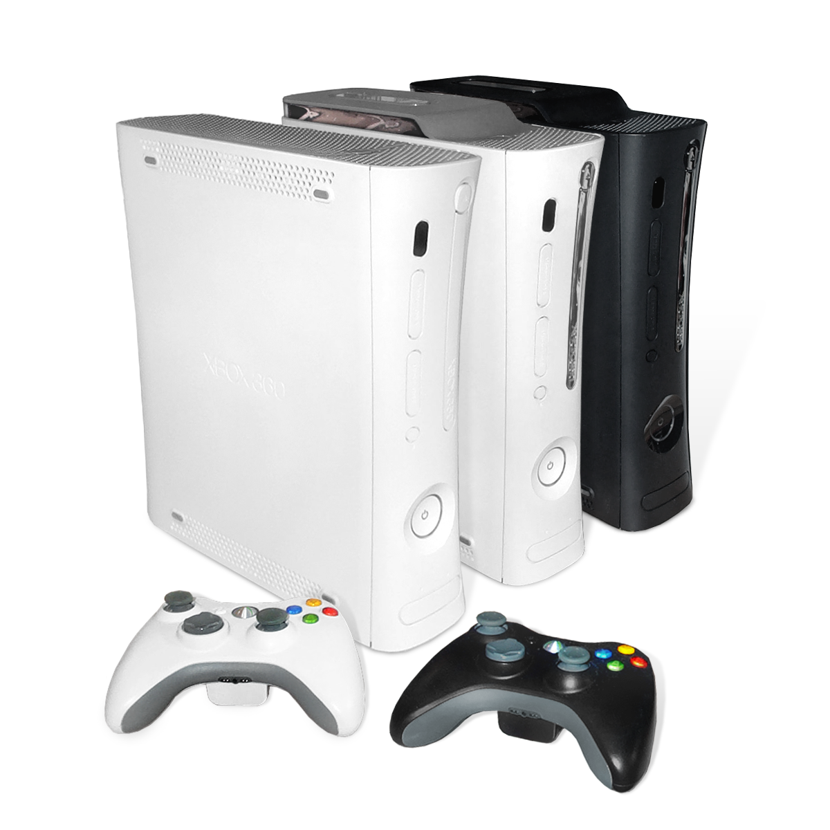 Xbox 360 Core/Arcade, Pro and Elite